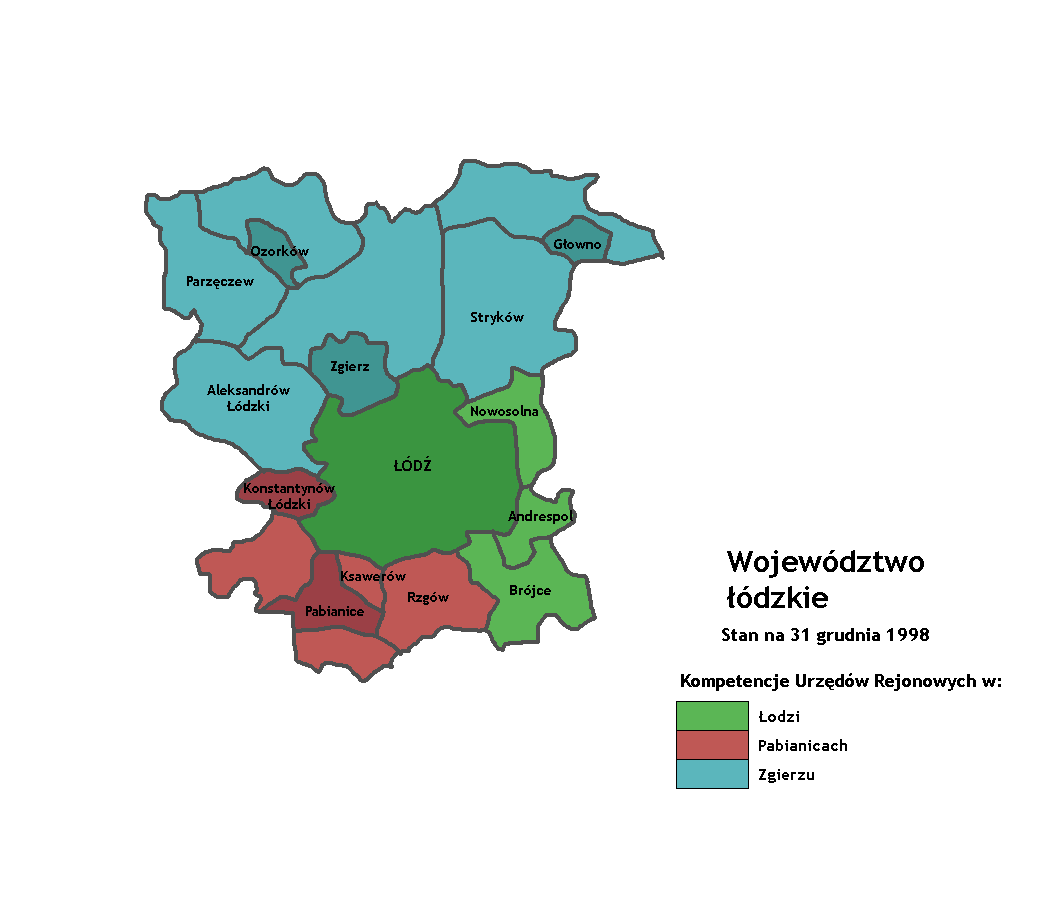 Map of the Łódź voivodeship in the last day of its existence (31 december 1998).